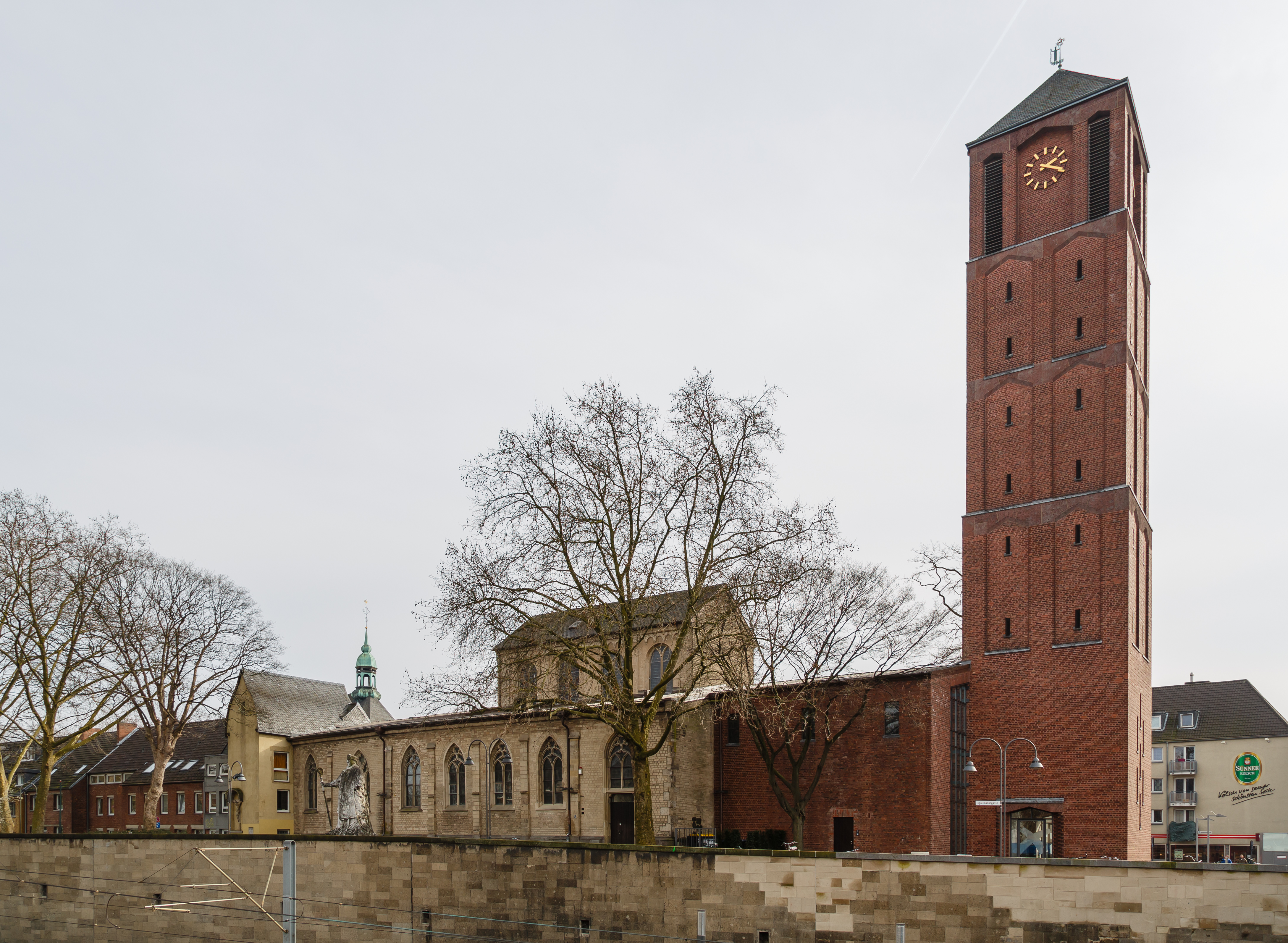 Cologne, Germany: Exterior view of Johann-Baptist-Kirche (Köln)